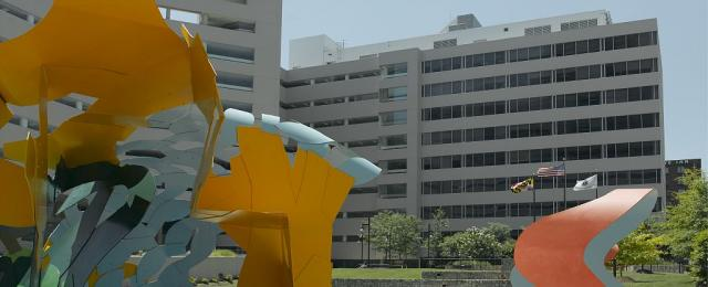 View of US District Court for Maryland, Northern Division, in Baltimore, Maryland. From the Court's Website.